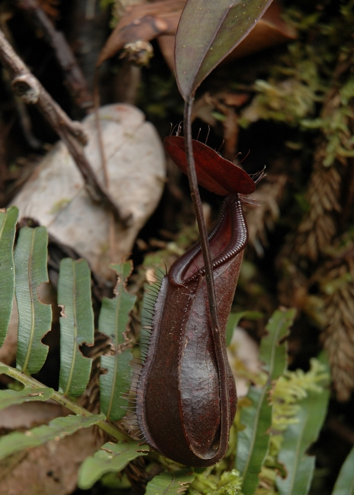 Nepenthes muluensis Gunung Murud by Jeremiah Harris